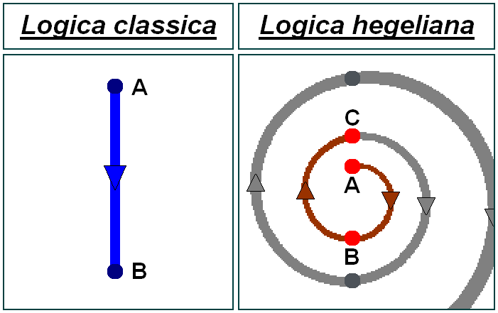 Comparison between classical Logic and hegelian Dialectic